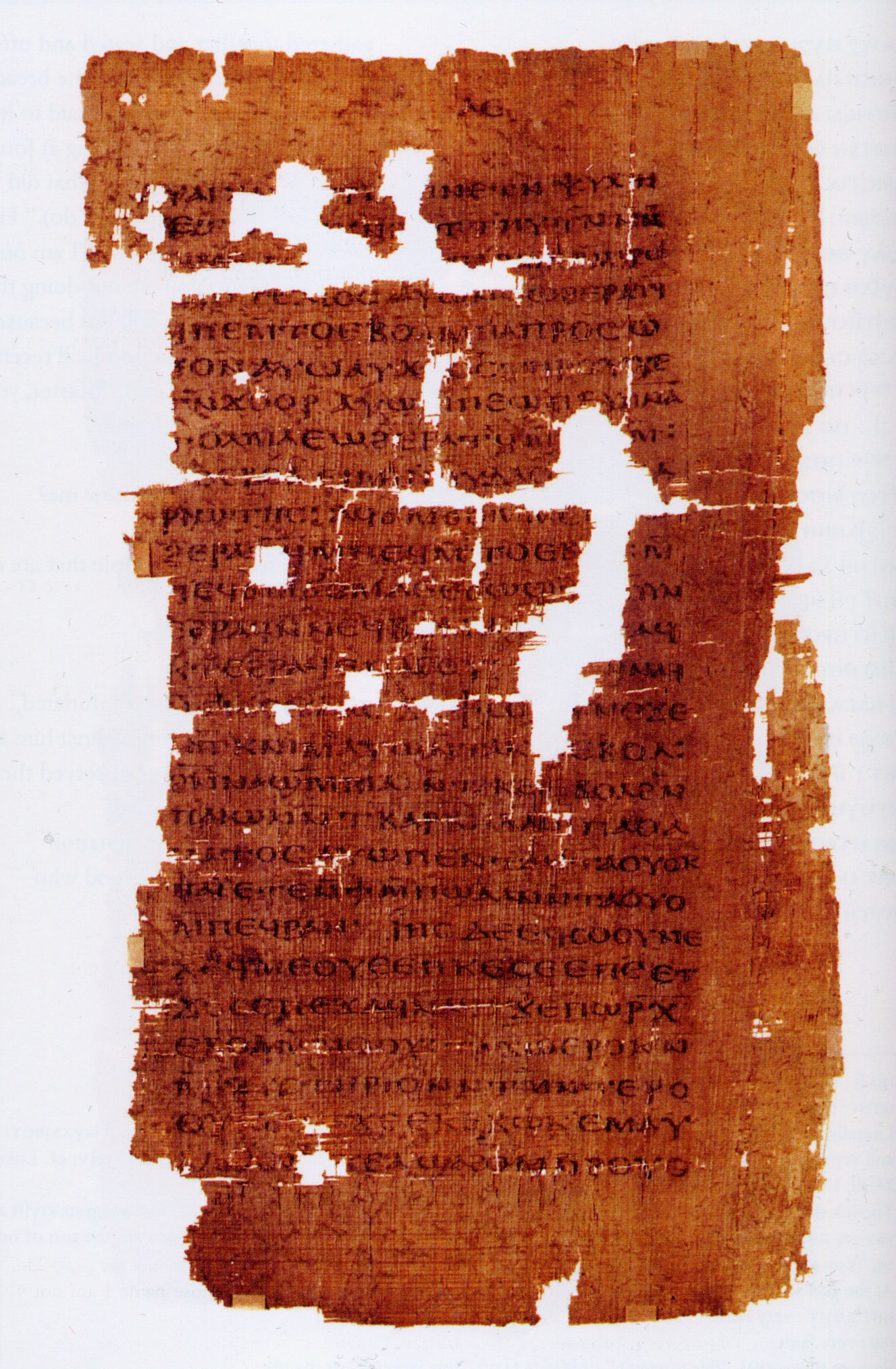 Page from Codex Tchacos.